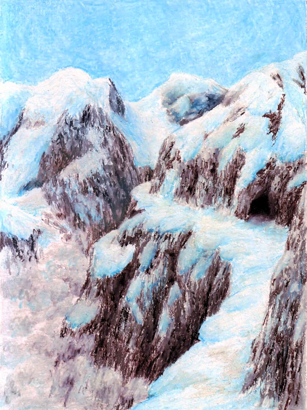 High Pass in Misty Mountains